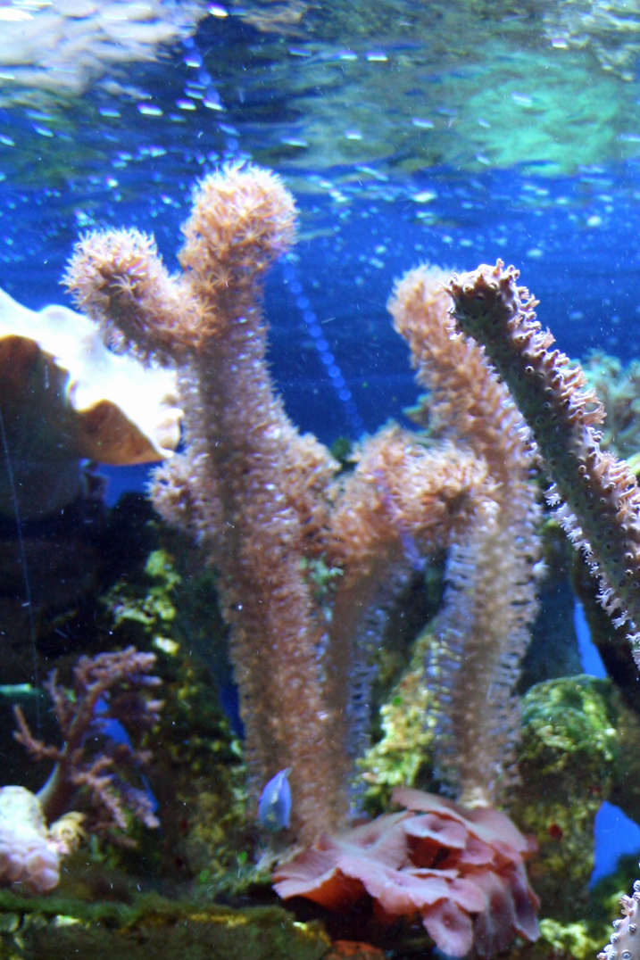 Sea corall Briareum asbestinum in Prague sea aquarium “Sea world”, Czech Republic